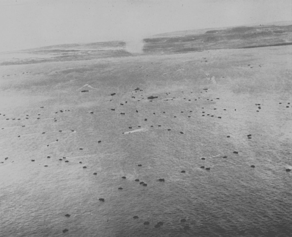 U.S. ships and coastal Tinians shortly before landing on 23 July.